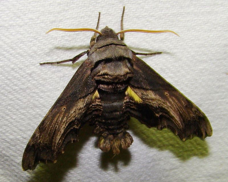 4/29/13 Boone County MO Photo and ID thanks to Lee Elliott